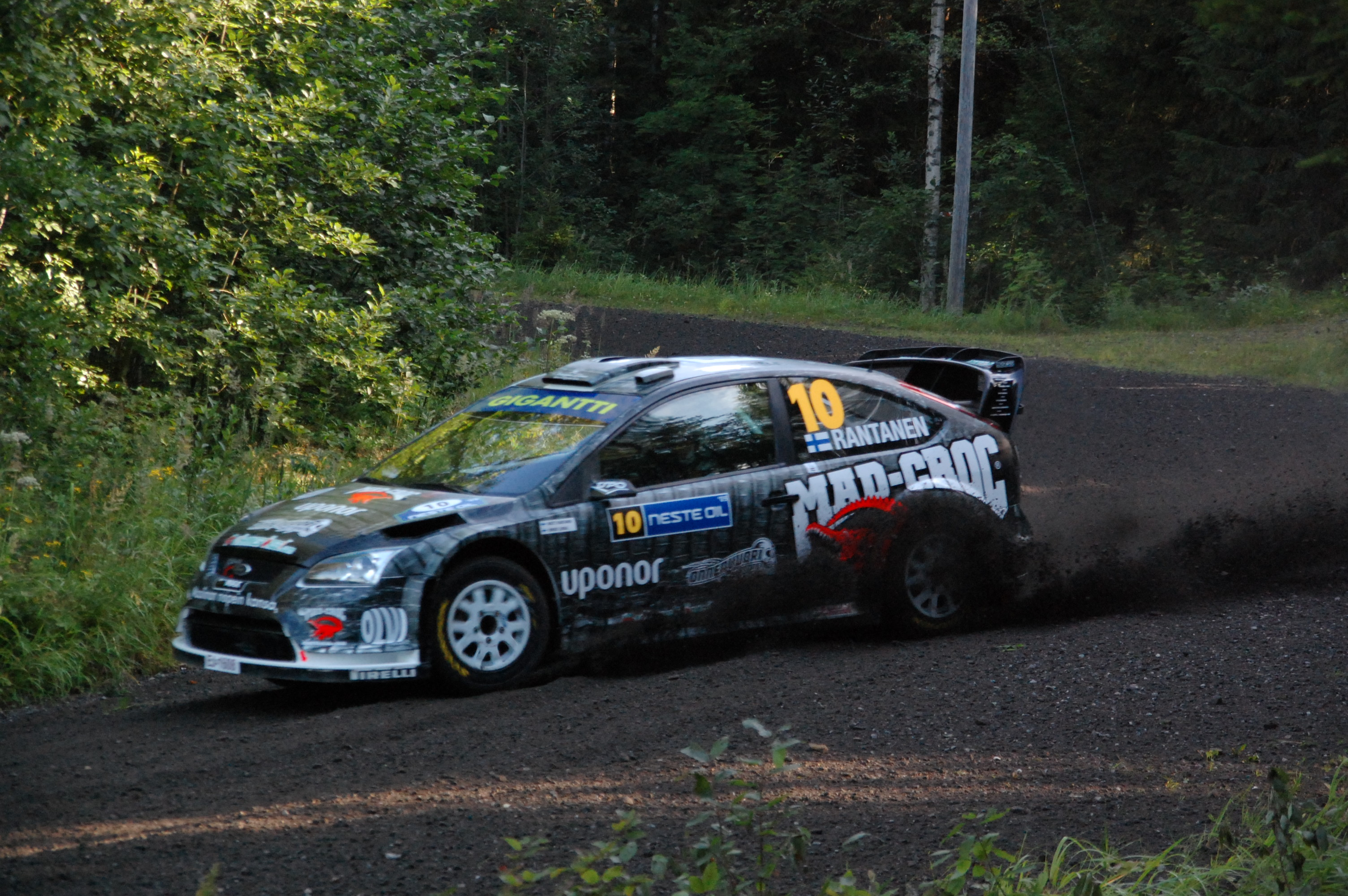 Matti Rantanen - 2009 Rally Finland. More pictures on my website